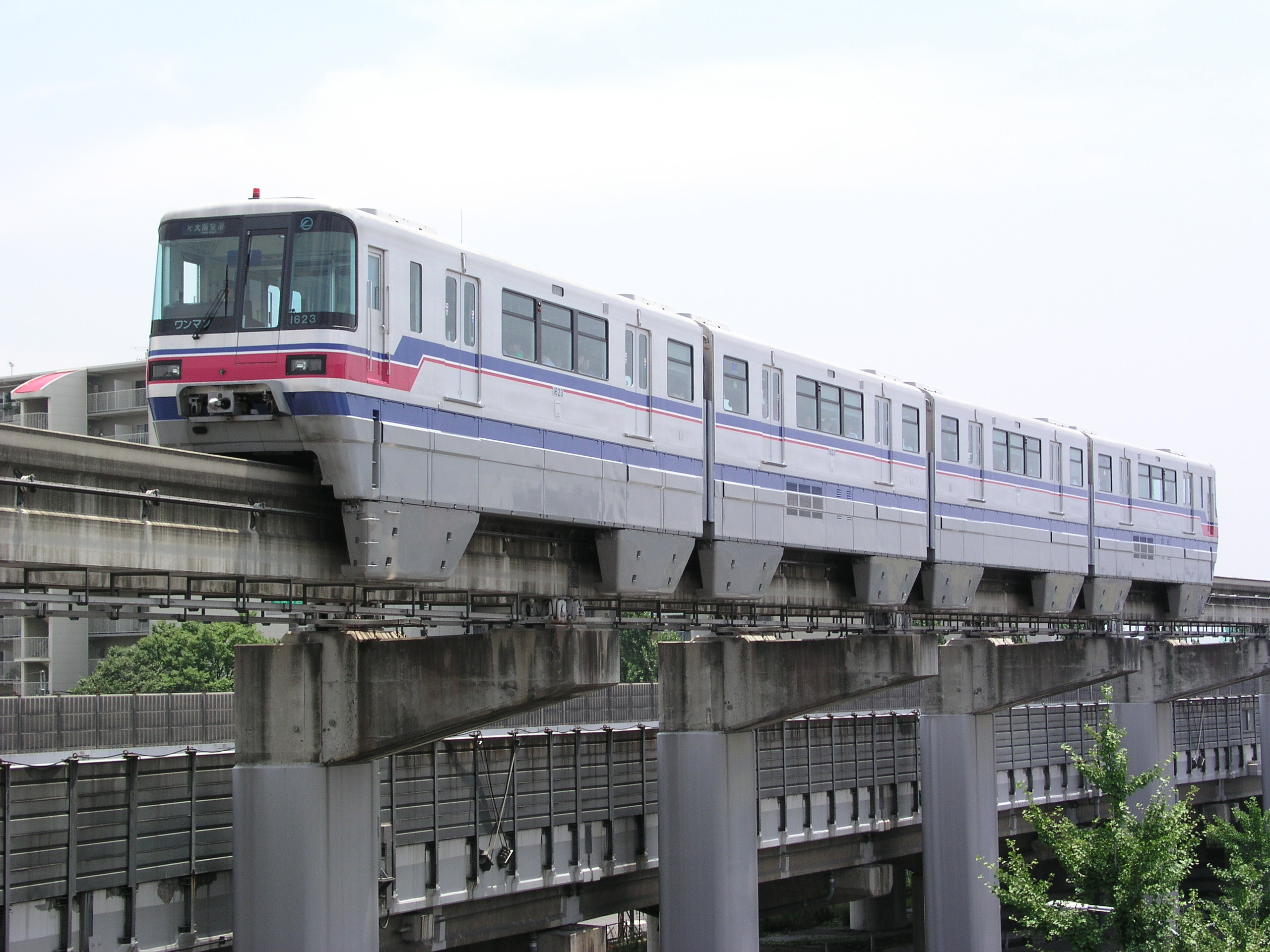 Osaka monorail type 1000